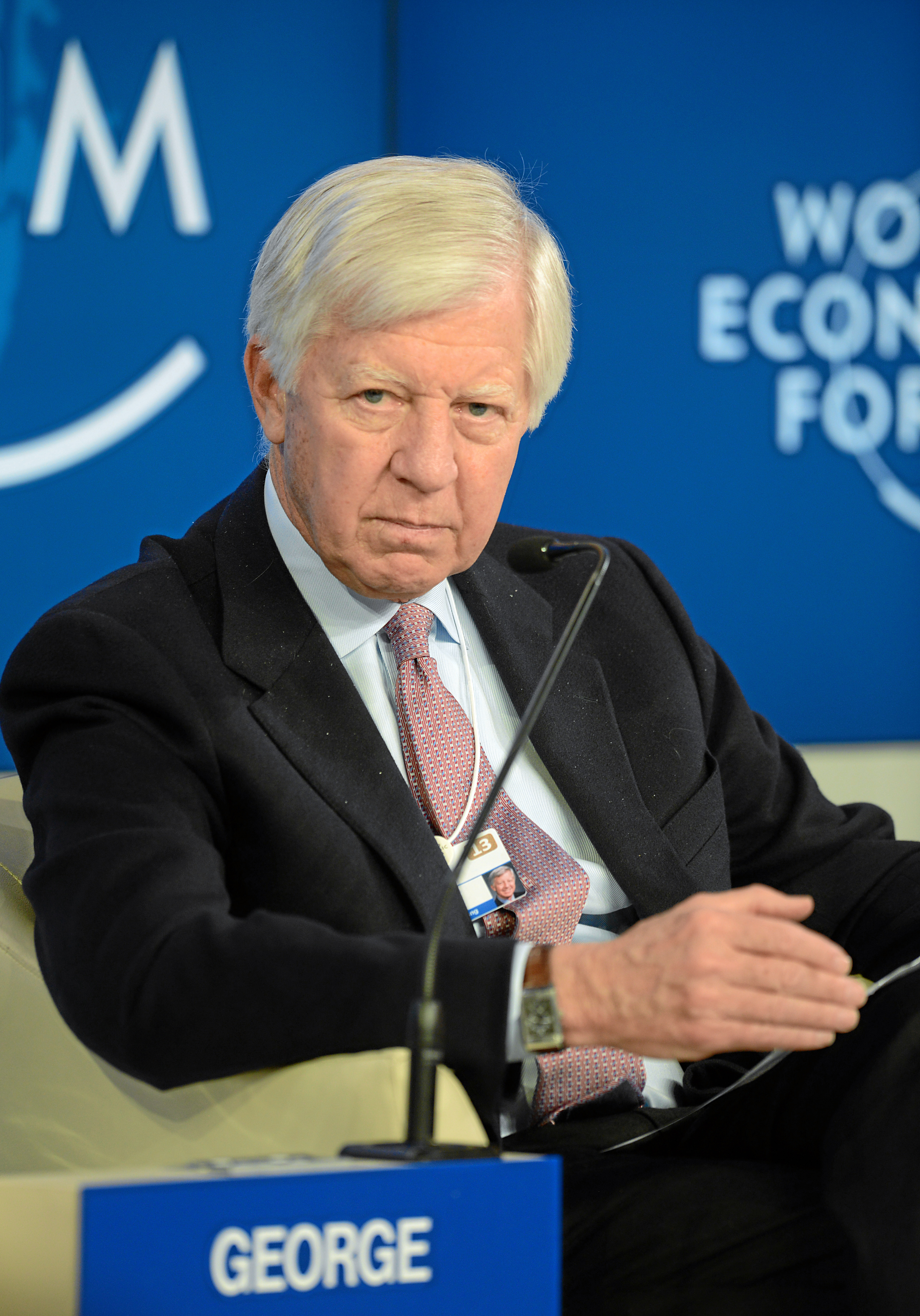 DAVOS/SWITZERLAND, 26JAN13 - William W. George, Professor of Management Practice, Harvard Business School, Harvard University, USA; World Economic Forum USA Foundation Board Member; Global Agenda Council on New Models of Leadership speaks during the Session 'The Moral Economy: From Social Contract to Social Covenant' at the Annual Meeting 2013 of the World Economic Forum in Davos, Switzerland, January 26, 2013.. . Copyright by World Economic Forum. . Michael Wuertenberg